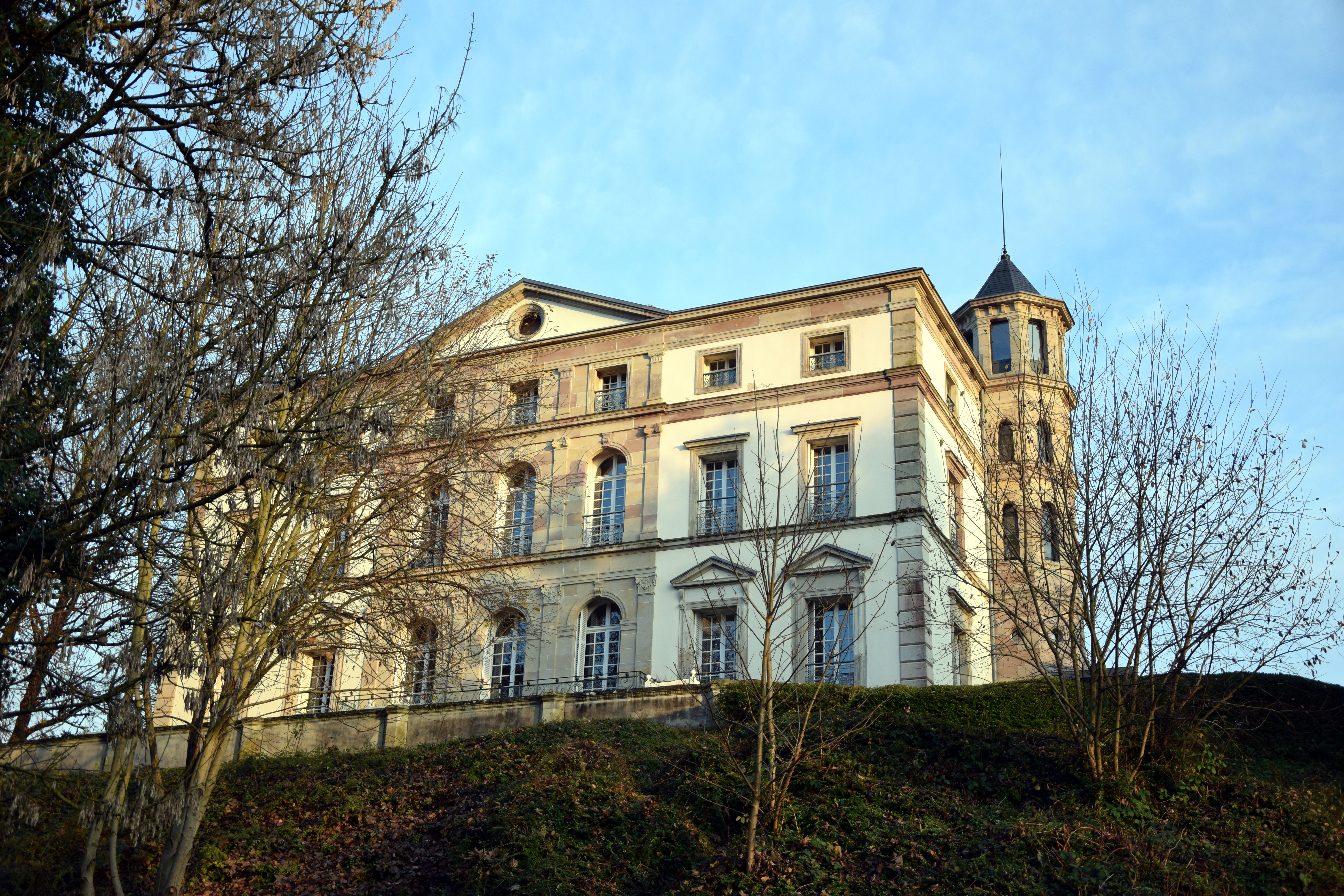 Castle Saglio in Sevenans, France